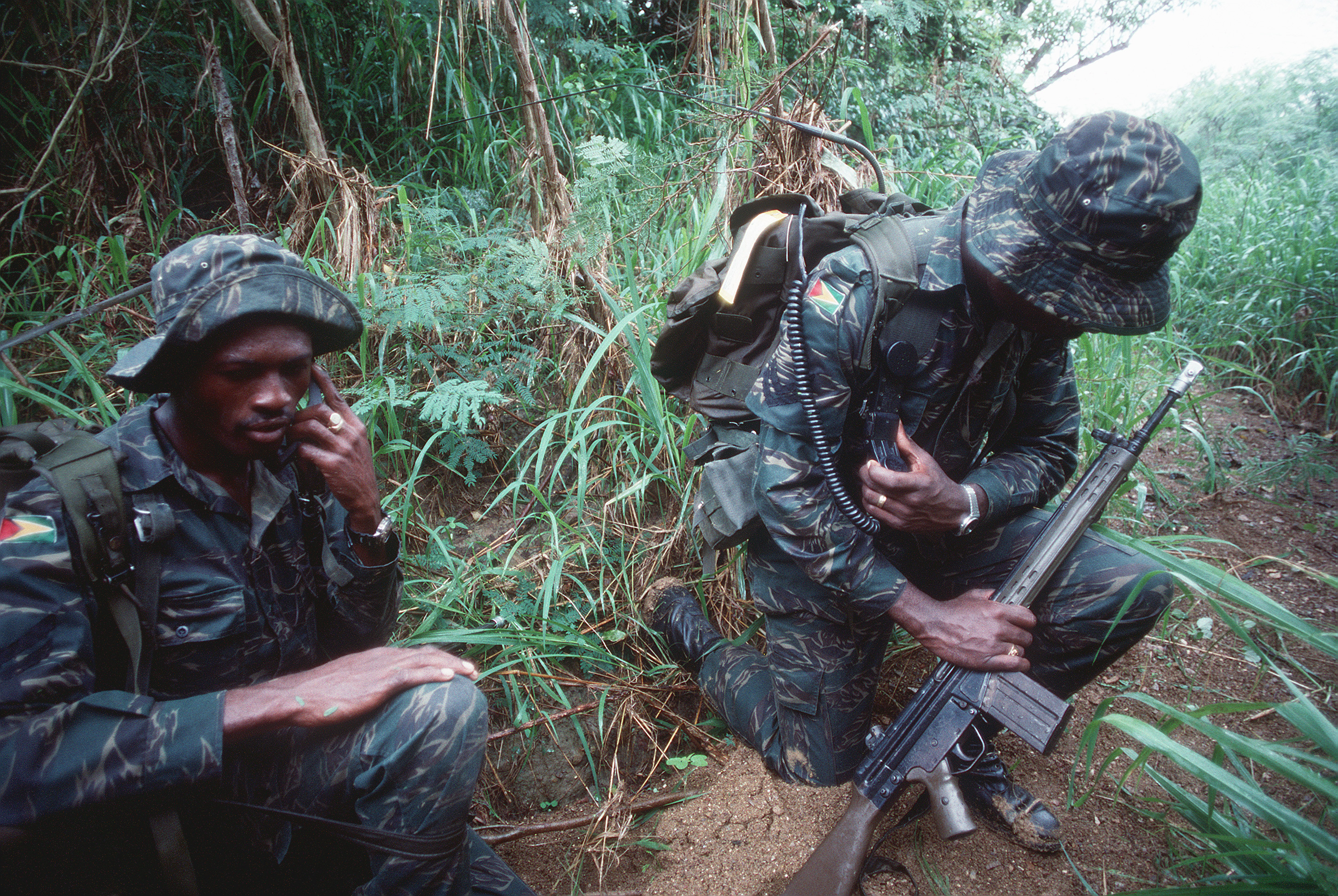 Soldiers of the Guyana Defense Forces relay information to other members of their unit during TRADEWINDS '92, a joint exercise between eleven Caribbean countries, the United Kingdom and the United States. The soldier on the right is armed with a 7.62mm Heckler & Koch G-3 assault rifle, with blank firing attachment on the muzzle.